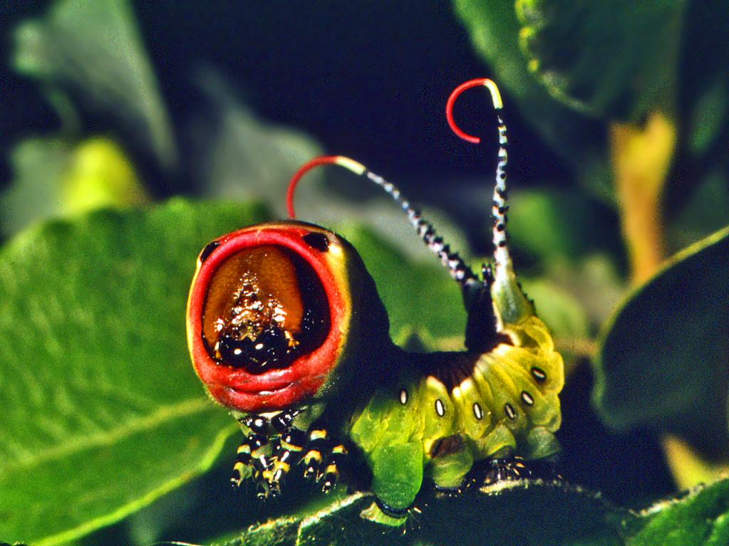 Caterpillar of "Cerura vinula" in terrifying attitude